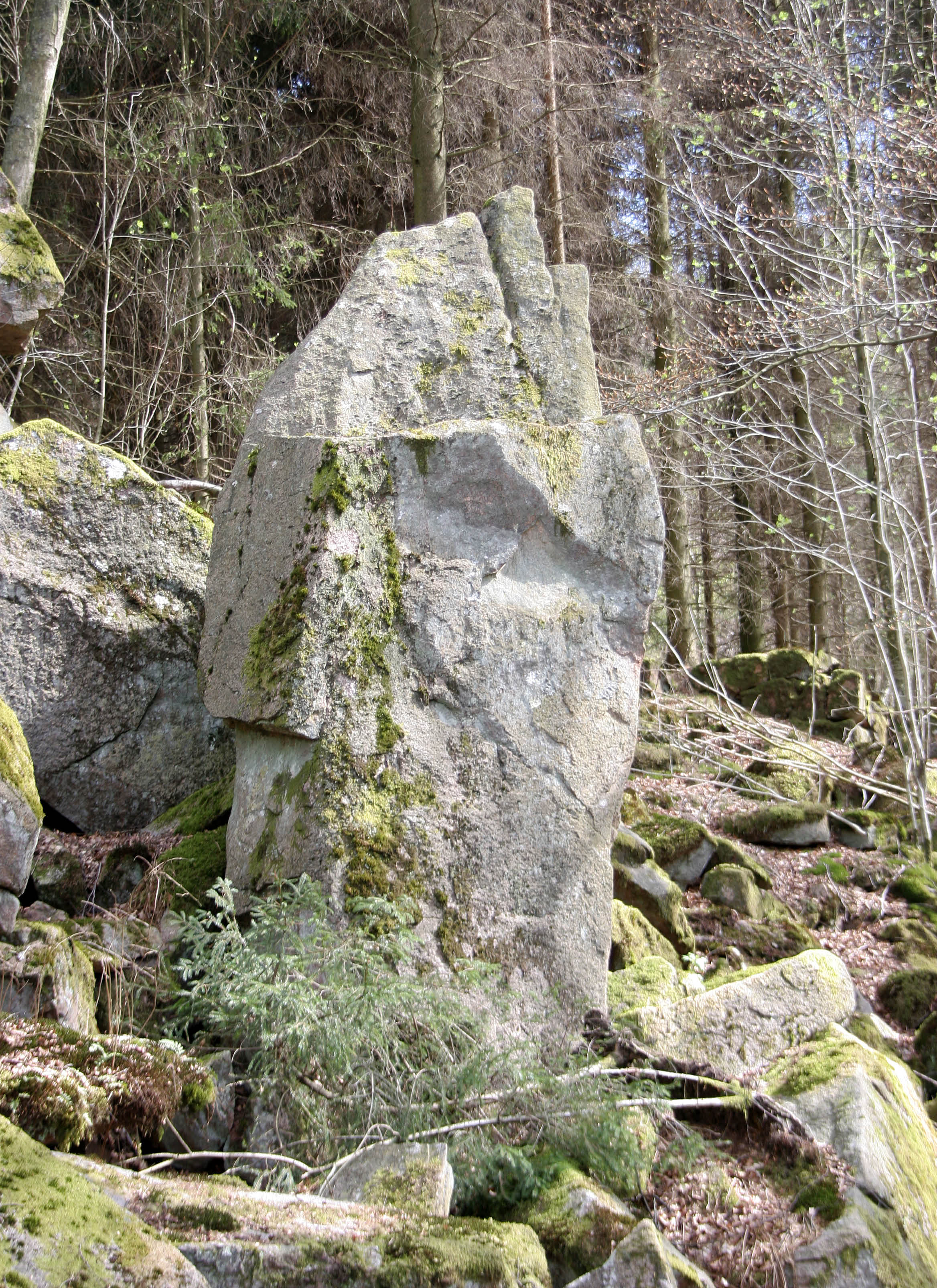 Rock formation in Klåveröd recreational area.